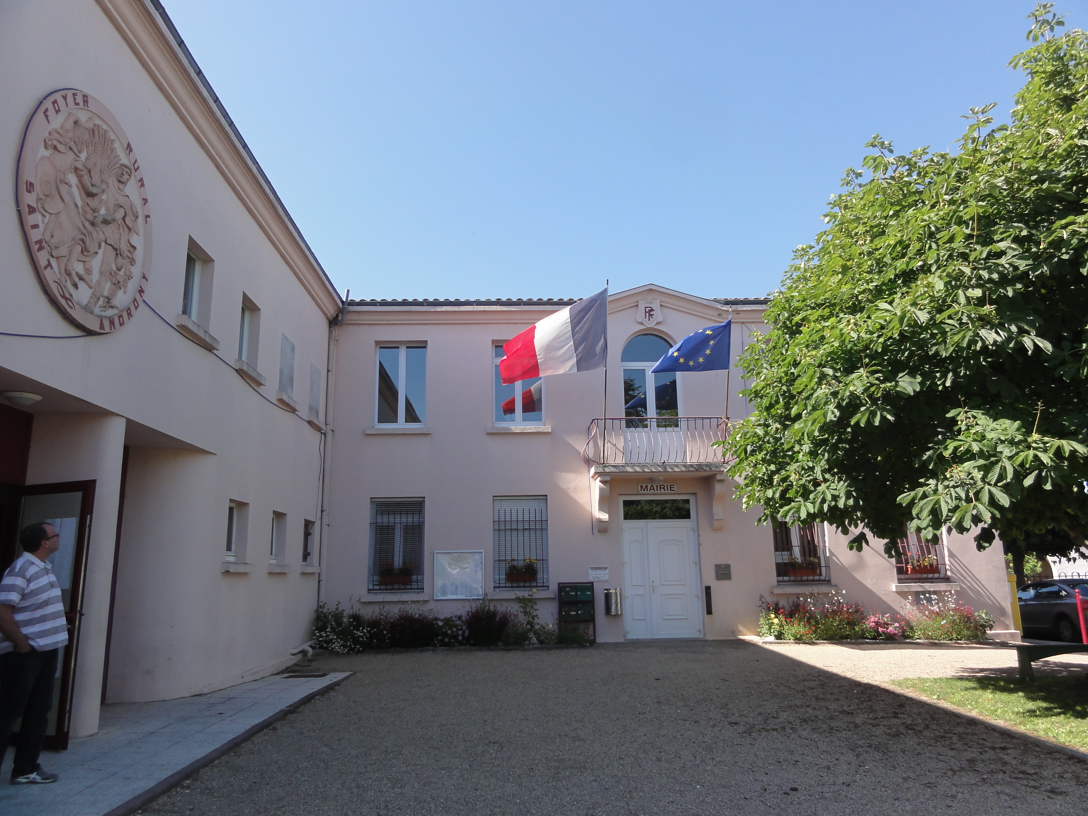 Saint-Androny (Gironde) mairie